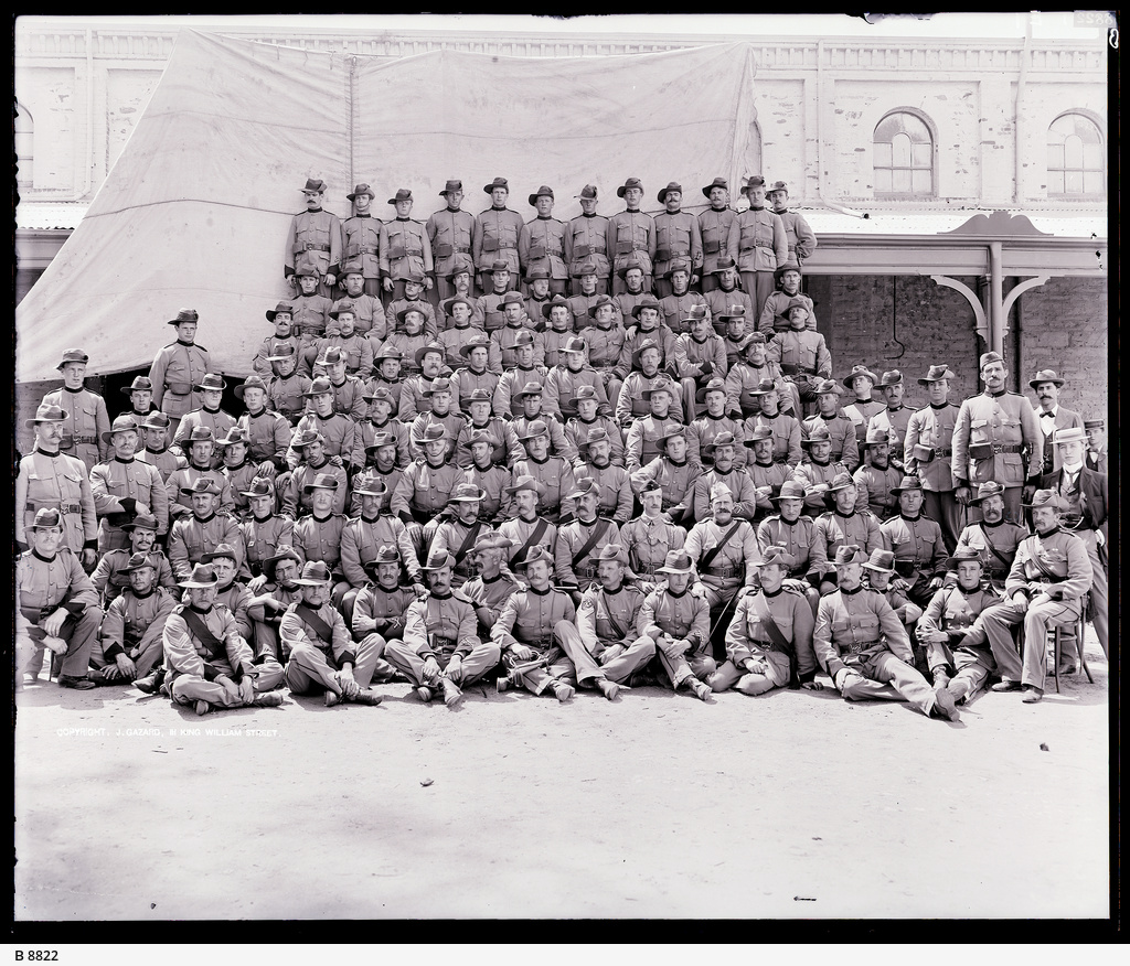 This group, which departed for South Africa on the Medic on November 2nd, 1899 is part of the South Australian Mounted Rifles which comprised the first two contingents sent off to the South African war. The men, all wearing their slouch hats are seated in tiers. [On back of photograph] 'South African War / 1899-1902 / First South Australian Contingent / see Chronicle illustrations November 4th 1899'.